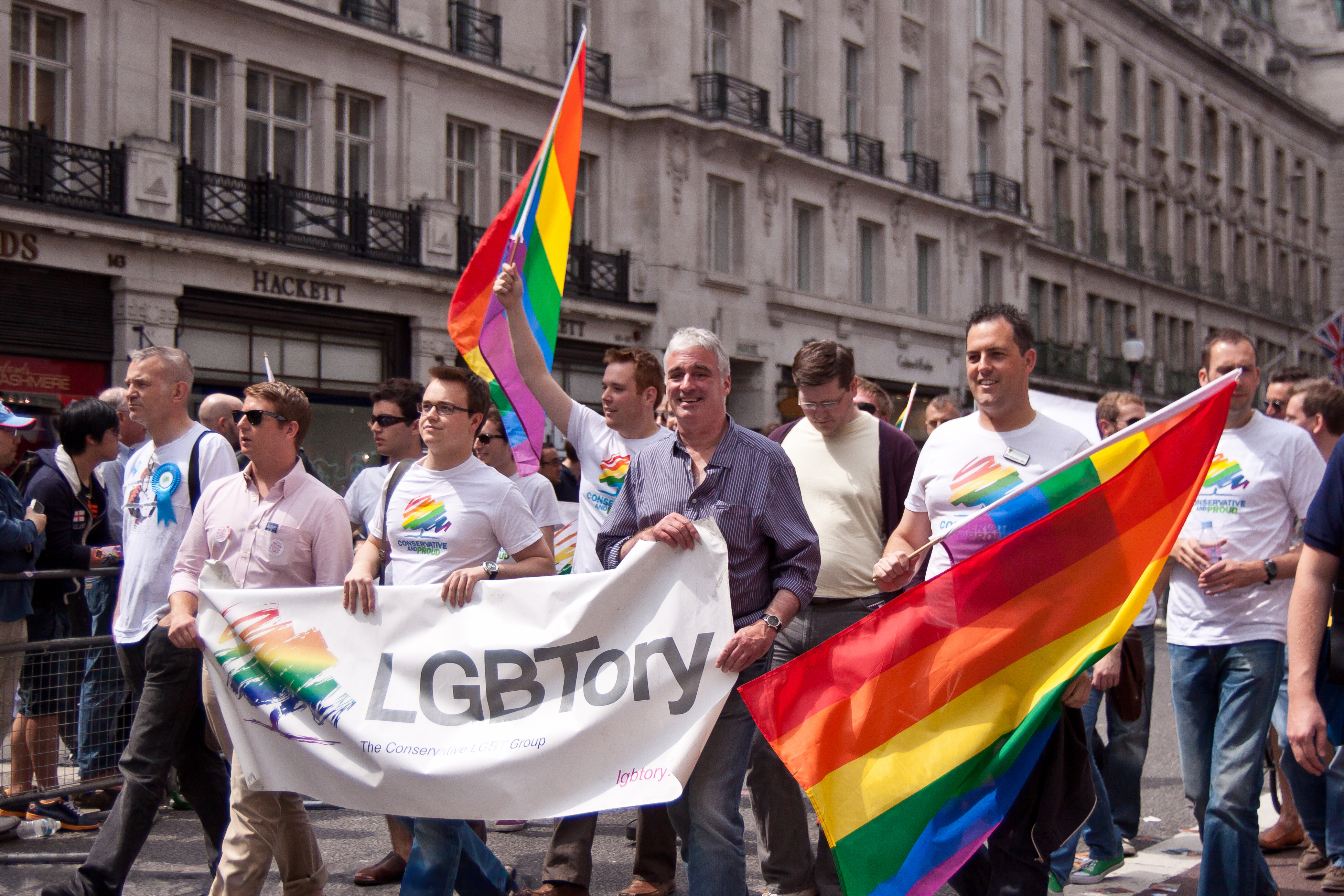 LGB Tory